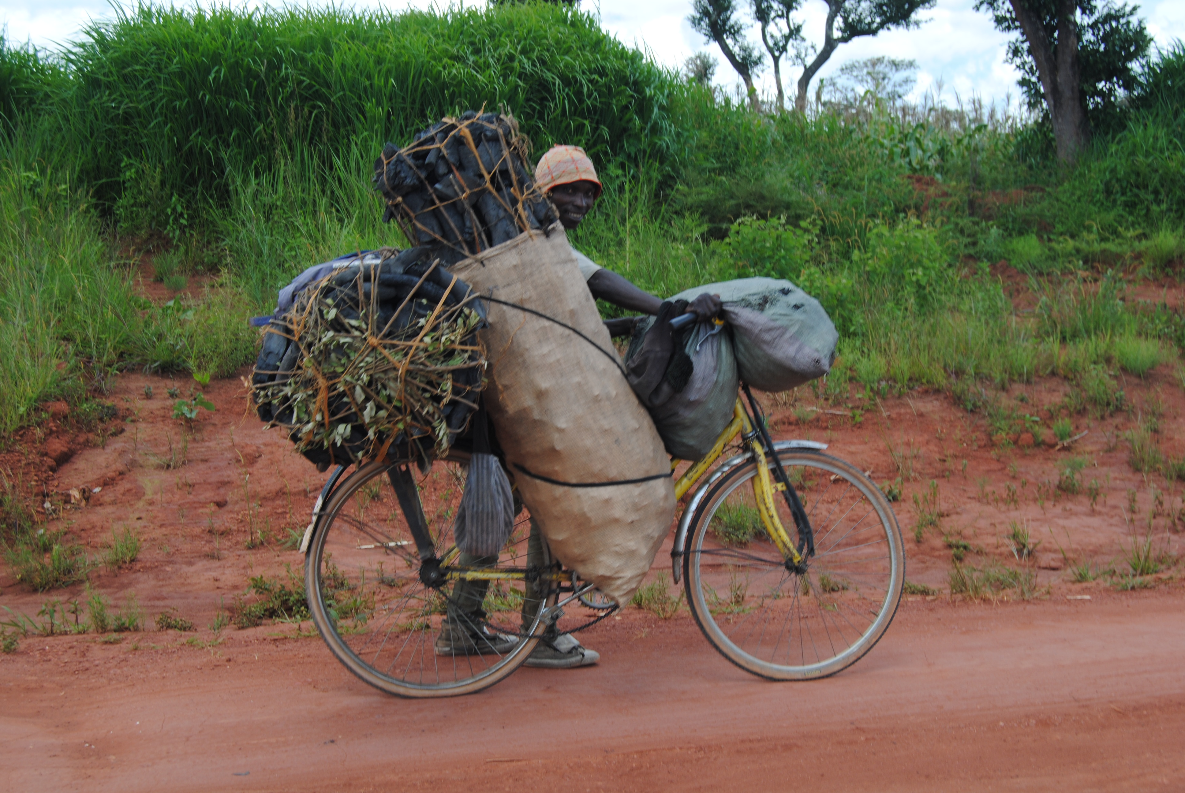 In Zambia there's a problem of fuel and power which has led to a lot of deforestation through charcoal burning. This has become a big business has it has demand in towns. As a result, this is one of the causes of grobal warming. This is an image with the theme "Africa on the Move or Transport" from: Zambia